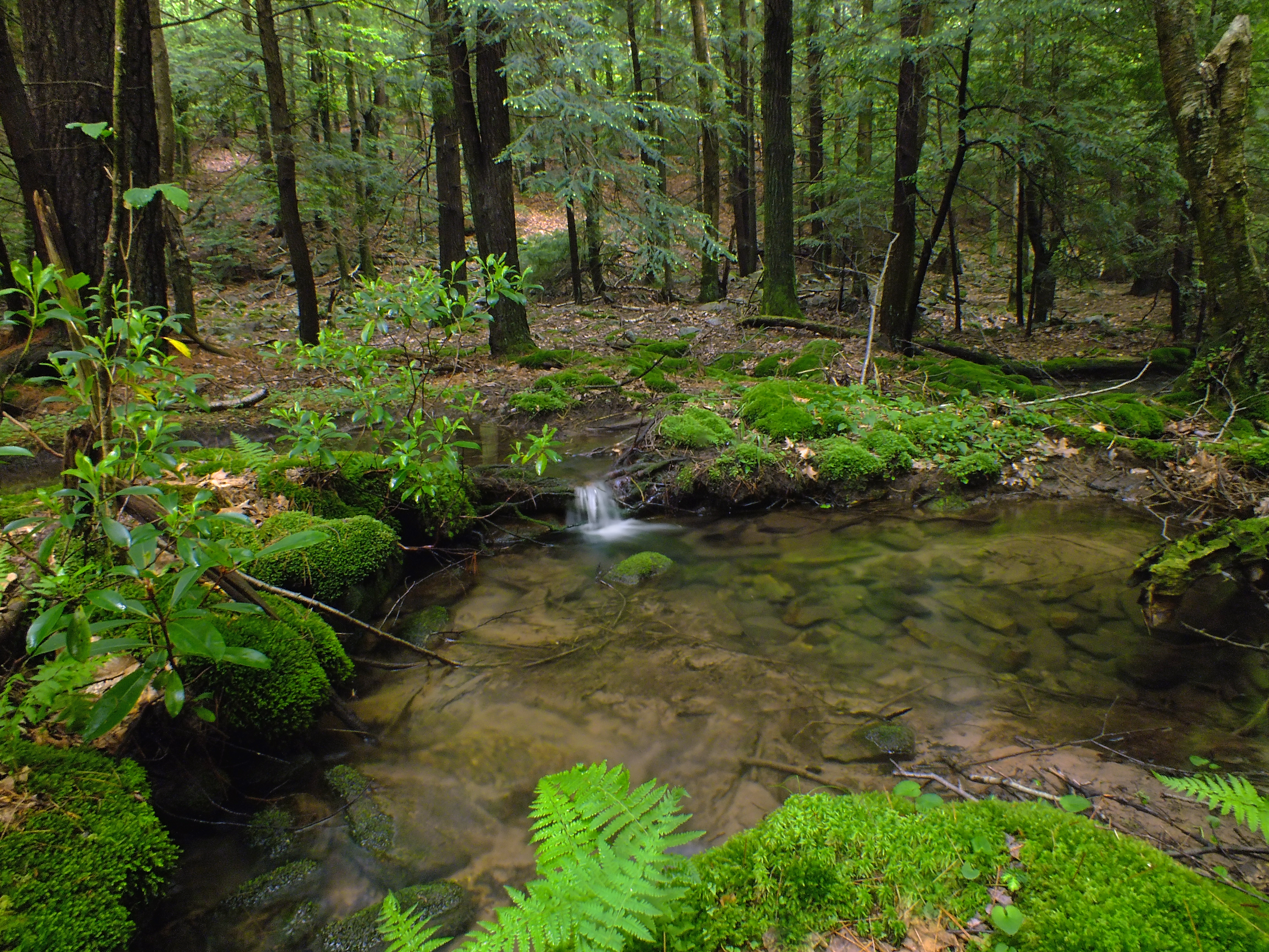 Panther Run, Union County, within the Hook Natural Area of Bald Eagle State Forest. The natural area protects 5100-plus acres of mountainous, heavily forested land.